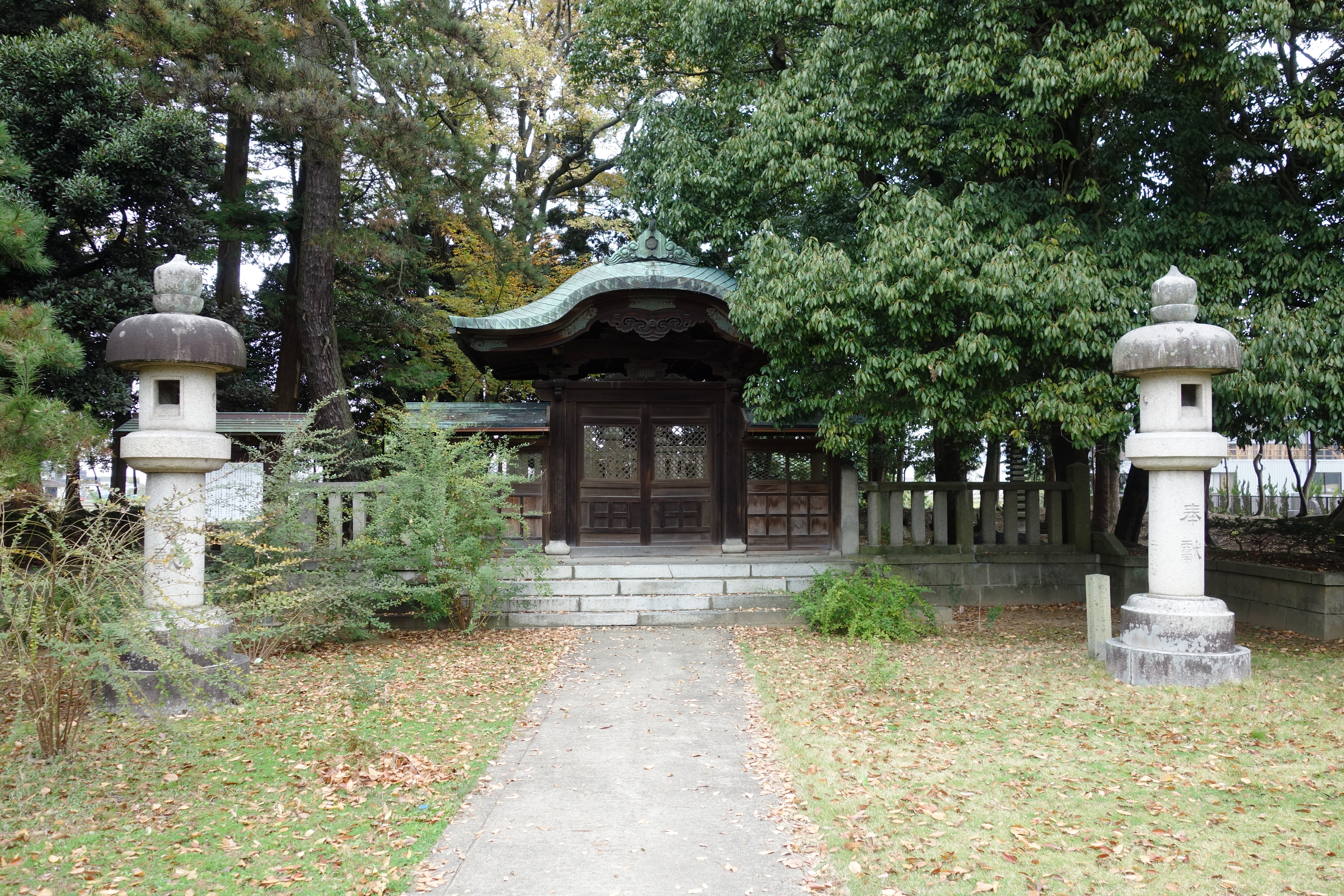 Tomb of Nitta Yoshisada at Shonenji Temple (Nagasaki, Maruoka-cho, Sakai-shi, Fukui Pref., Japan)